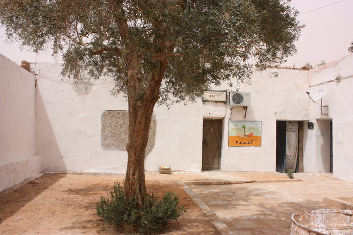 Photo of the association's office in the old market of Beni-Abbes